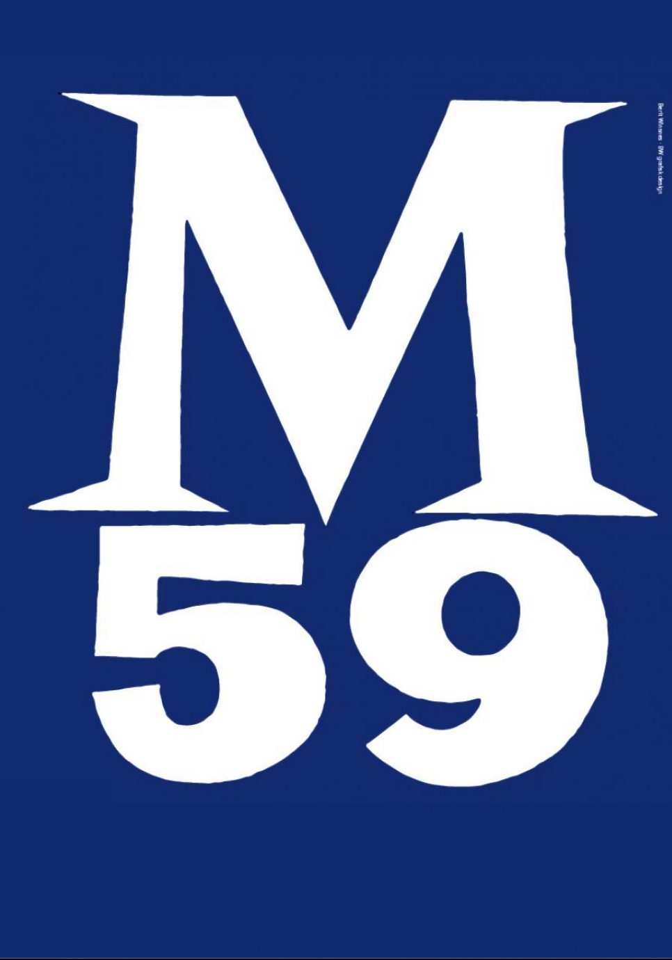 Danish Artist Group M59